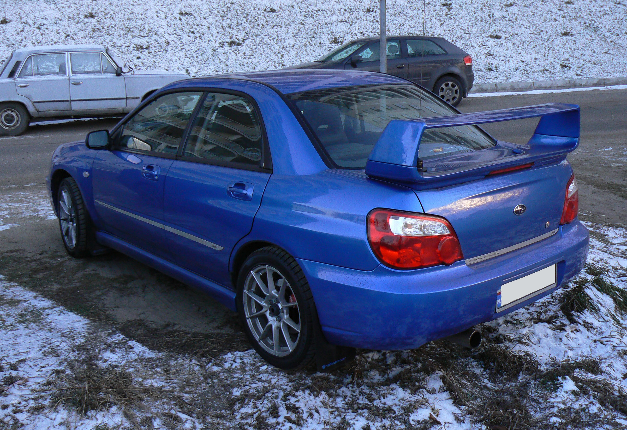 Second generation Subaru Impreza WRX, after the first facelift (MY2004 - 2005). Photo taken in Warsaw, Poland.